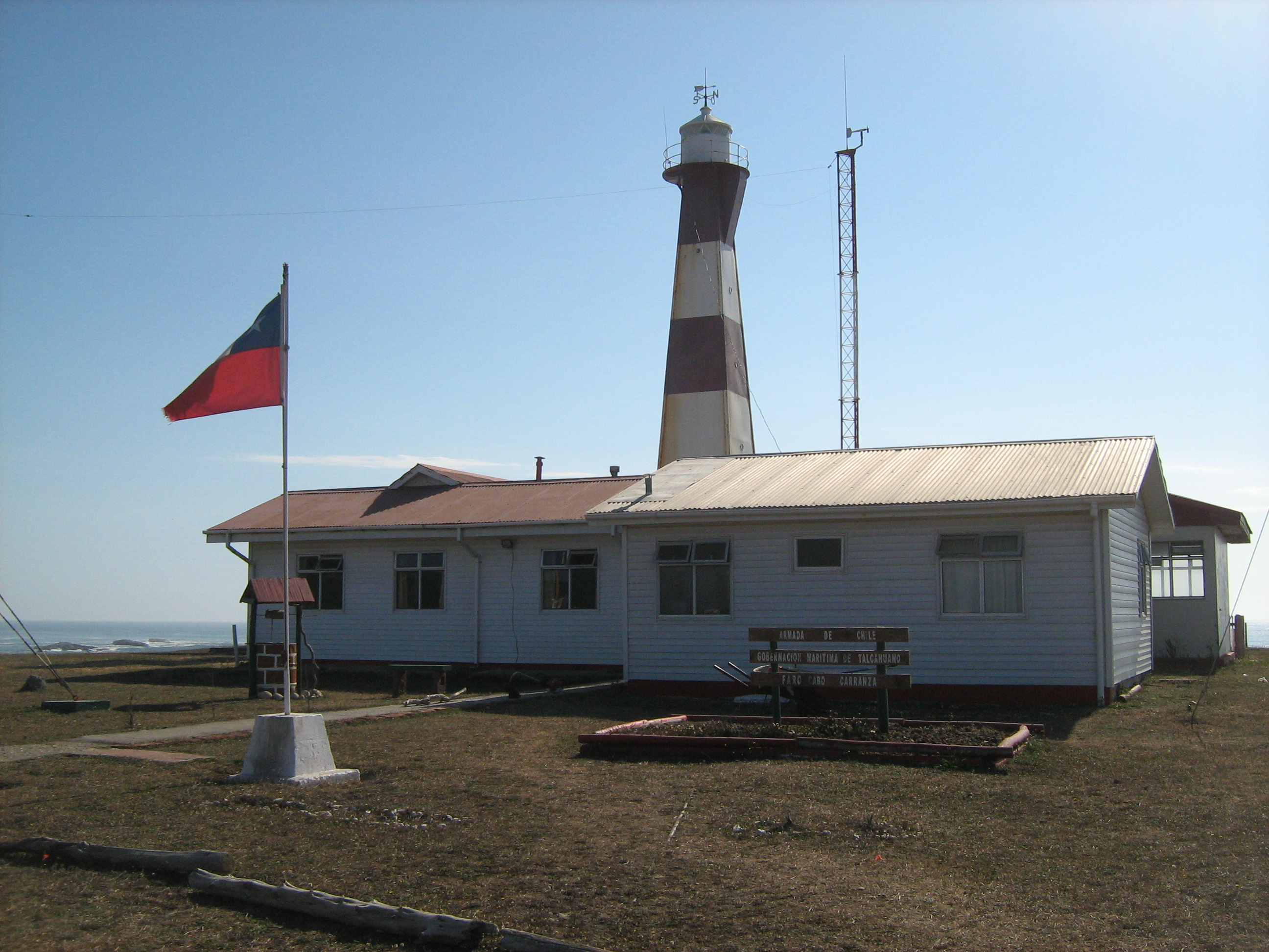 Lighthouse of Punta Carranza, which is situated in Chile in Maule region